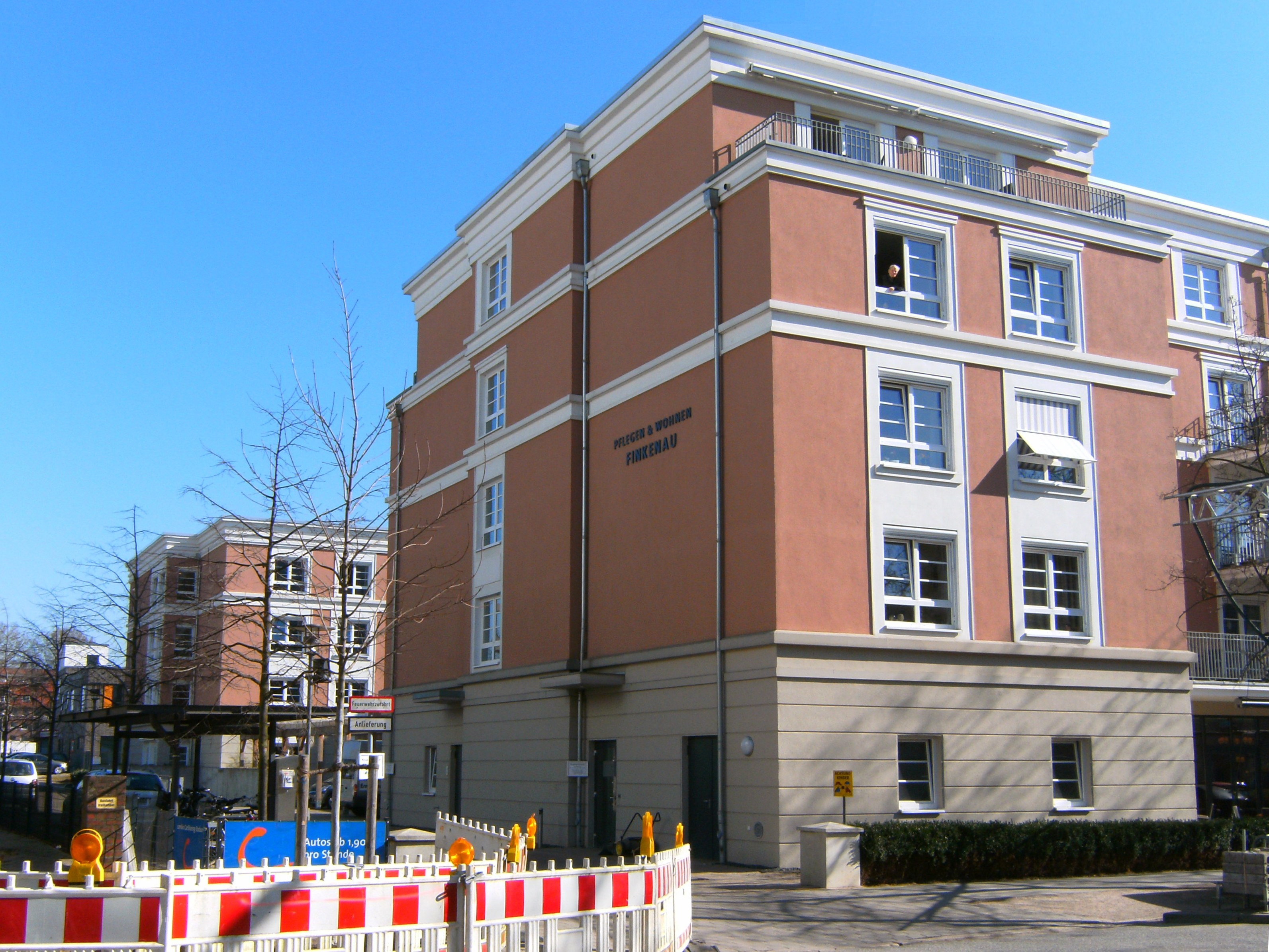 Home for the aged Pflegen & Wohnen Finkenau, Finkenau 11, Hamburg.